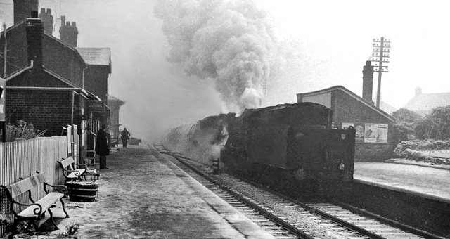 Winter scene at Hartford & Greenbank station. View eastward on Cheshire Lines Committee main line, Manchester - Northwich - Chester. A Down Class K freight is passing, with an ex-WD 'Austerity' 2-8-0 (tender-first) piloting a Stanier 8F 2-8-0. Brrr!